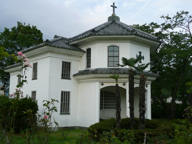 Orthodox Church in Ishinomaki, Miyagi, dedicated to St. John the Apostle. It was used as a church belonging to Orthodox Church in Japan, but now it is a cultural heritage of Ishinomaki after repairing Miyagi earthquake damage in 1978. The heritage: Saint John the Apostle Orthodox Church in Ishinomaki, is the oldest wooden church building (built in 1880) among existing wooden churches in Japan. Today, Ishinomaki Orthodox Church uses the other new church building (whose name is same; "Saint John the Apostle Church") after the earthquake.